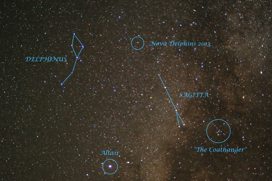 Nova Delphini 2013, in the night sky. Using a small telescope to scan the skies on August 14, Japanese amateur astronomer Koichi Itagaki discovered a "new" star within the boundaries of the constellation Delphinus. Indicated in this skyview captured on August 15 from Stagecoach, Colorado, it is now appropriately designated Nova Delphini 2013.